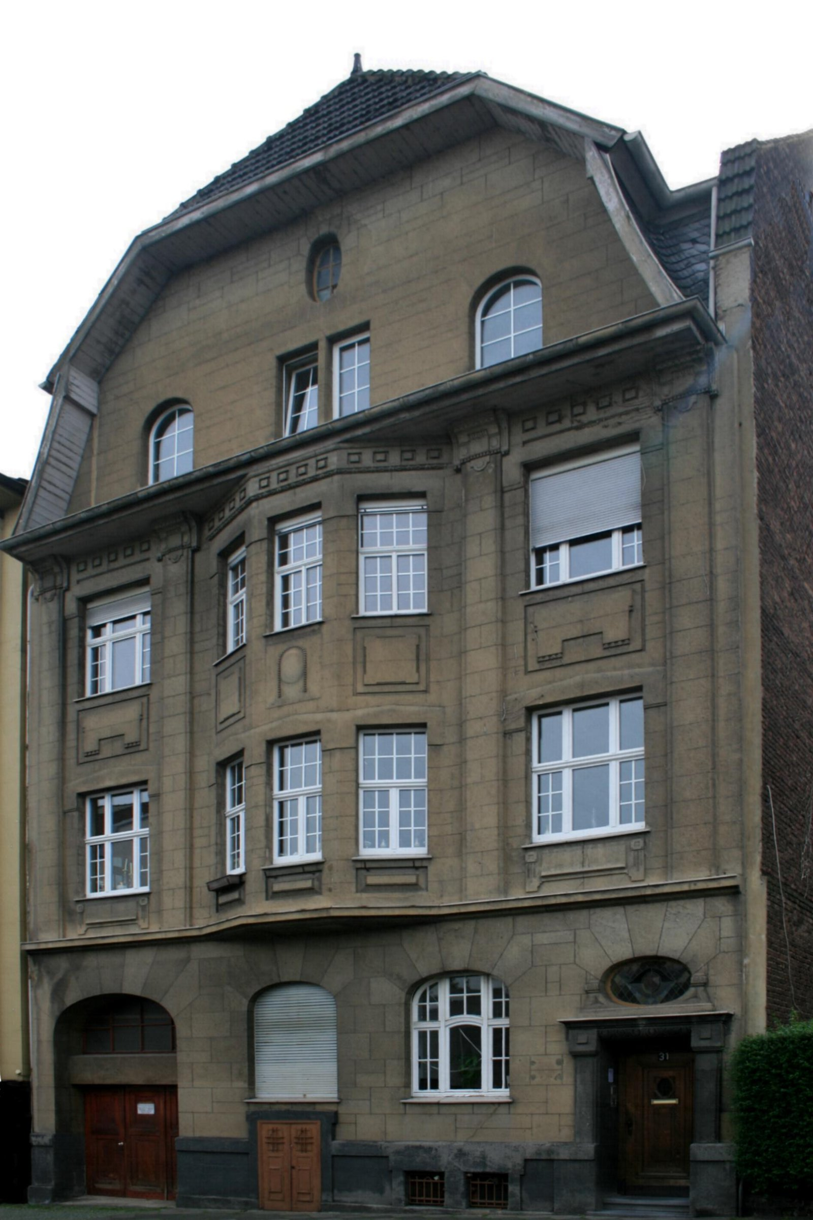 Cultural heritage monument No. N 003 in Mönchengladbach